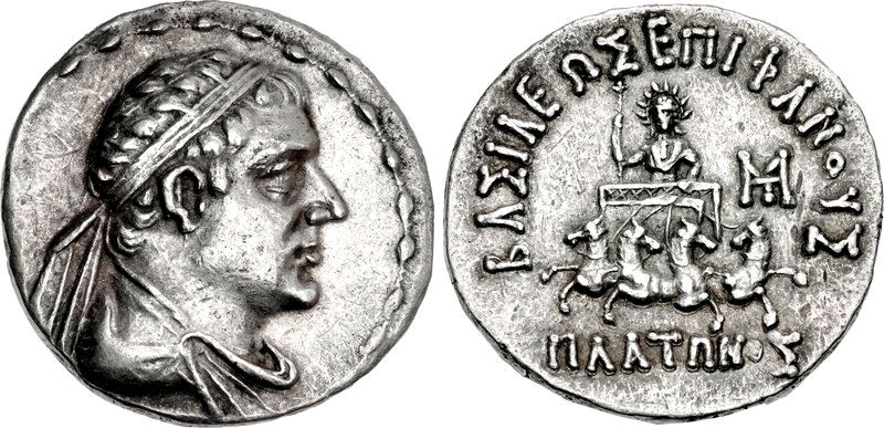 Plato Tetradrachm with MZ date